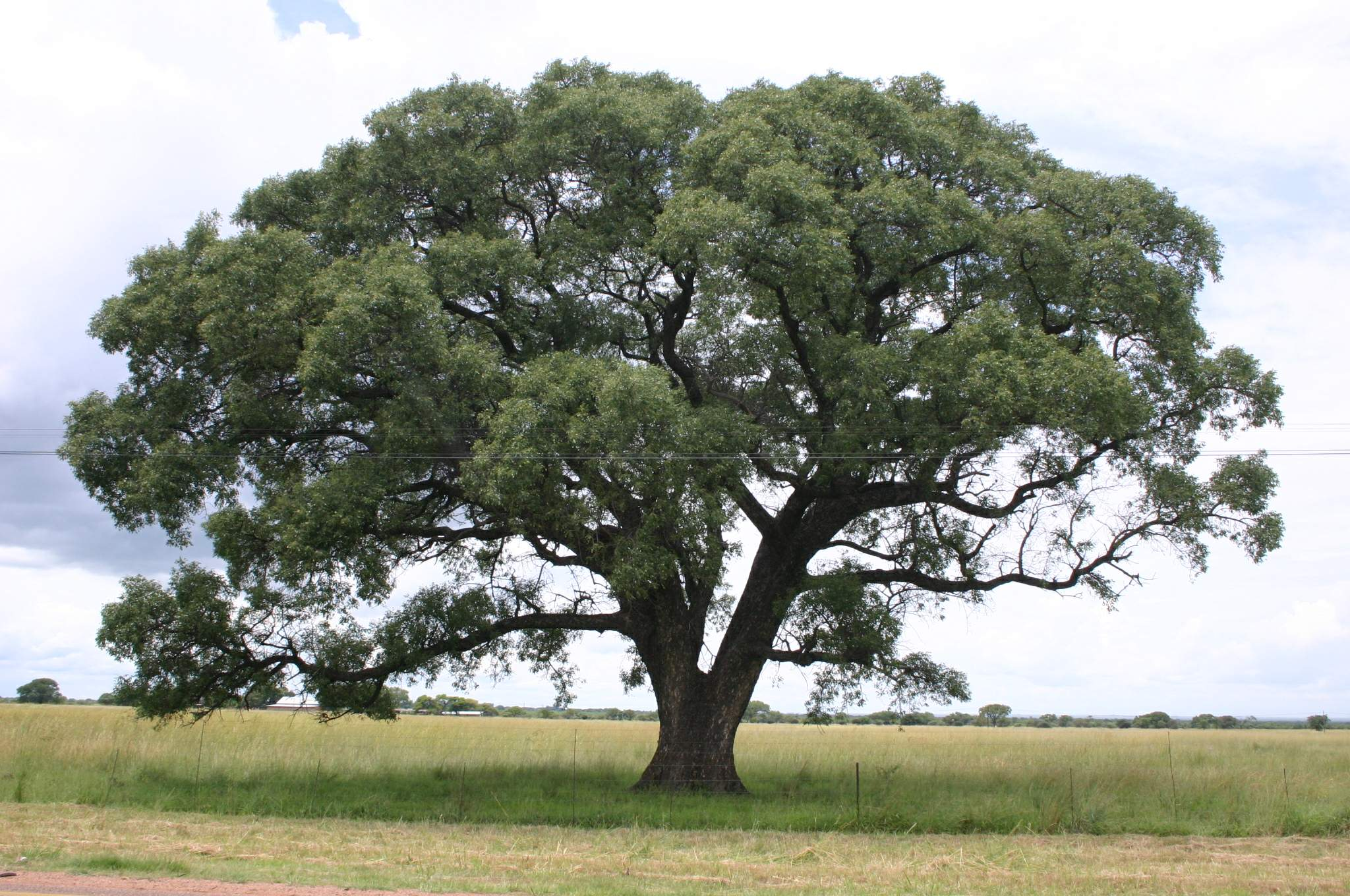 Fine specimen of Marula on road between Nylstroom and Potgietersrust, Transvaal, South Africa